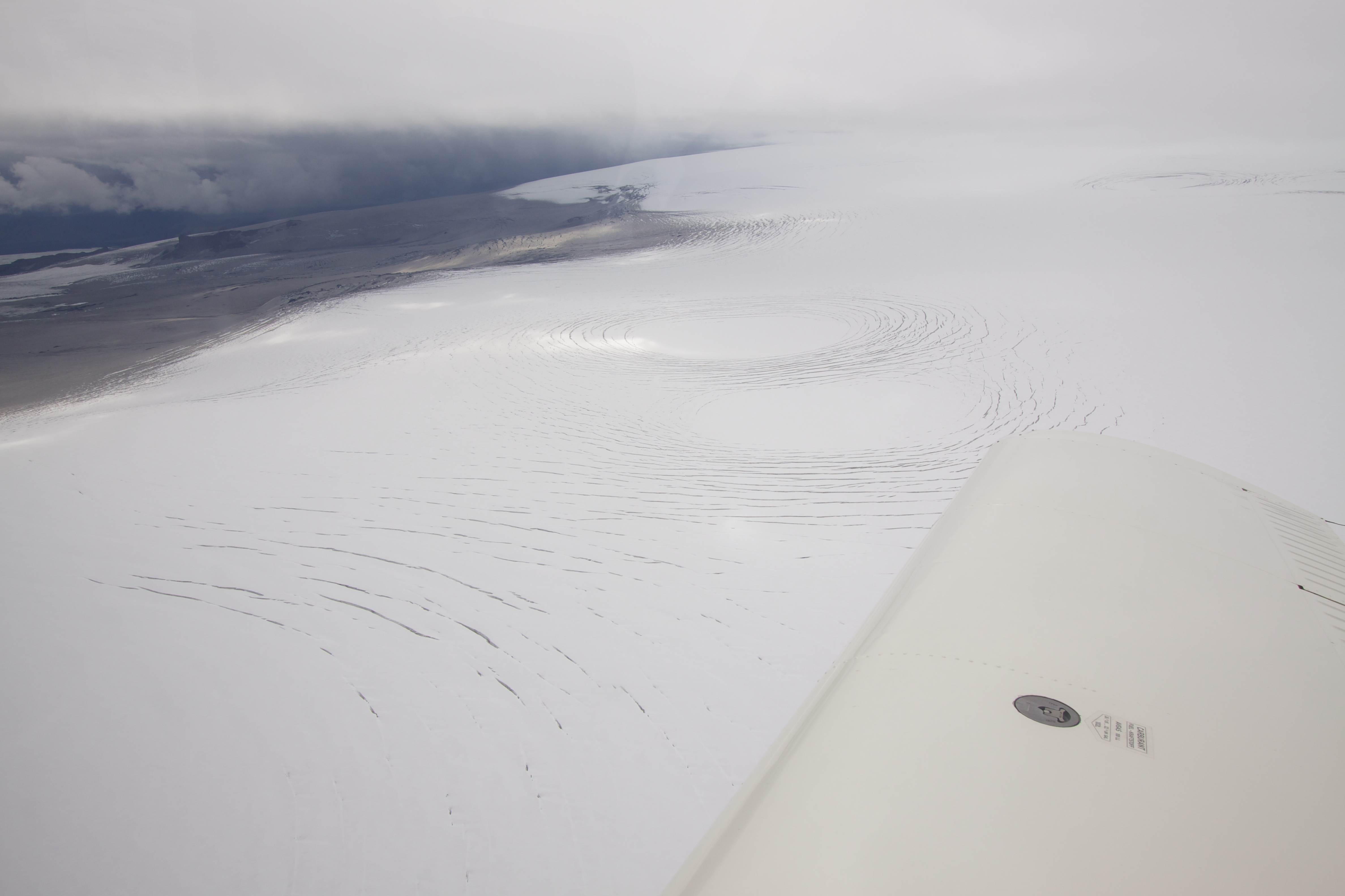 Myrdalsjökull from above. The cracks in the glacier formed after the recent jökulhlaup when the volcano Katla melted the glacier from underneath, causing the icecap to collapse.